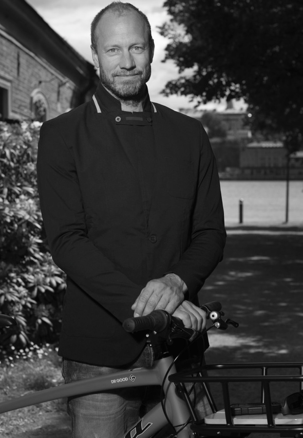 Andreas Danielsson